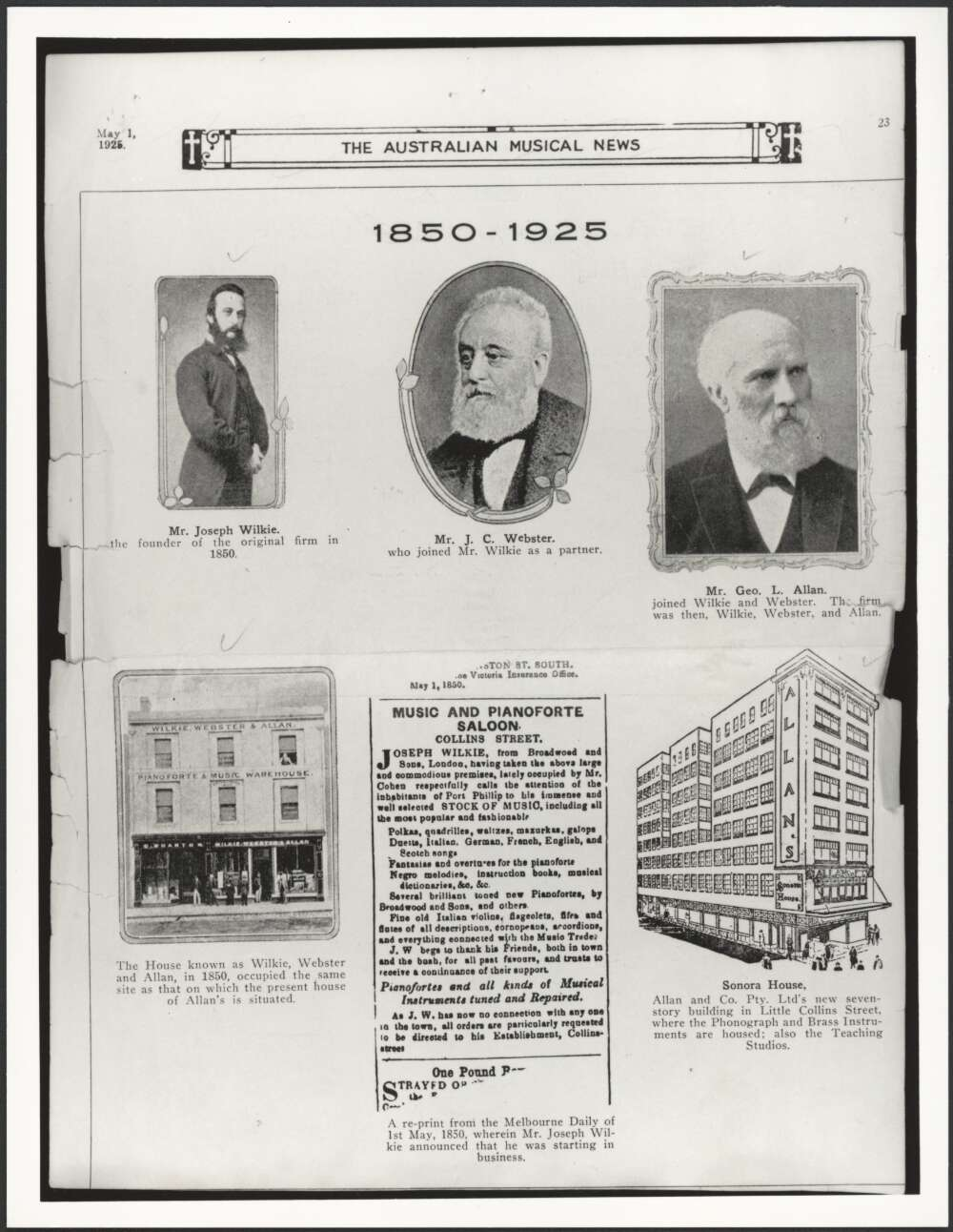 Page of The Australian Music News outlining the history of the companies behind what would become the Australian music retailer Allans Music.